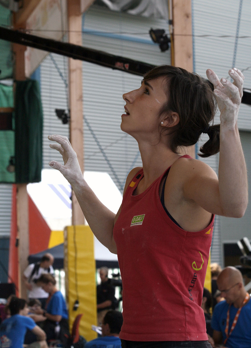 Juliane Wurm during the semi-finals at the IFSC Boulder Worldcup Vienna 2010.